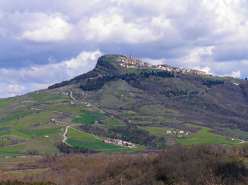 Cairano